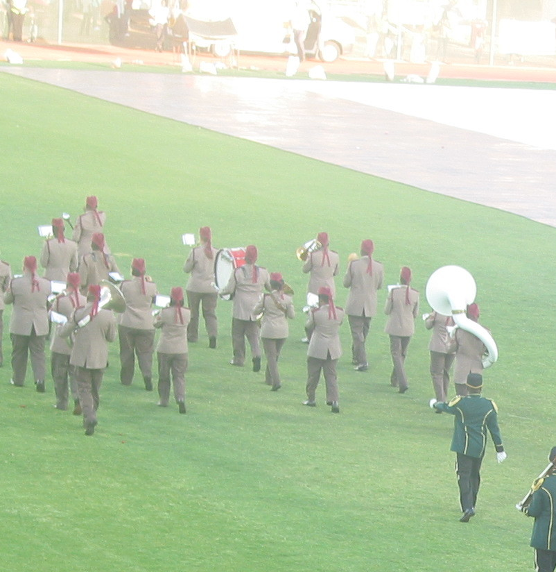 Opening of 17th World Festival of Youth and Students